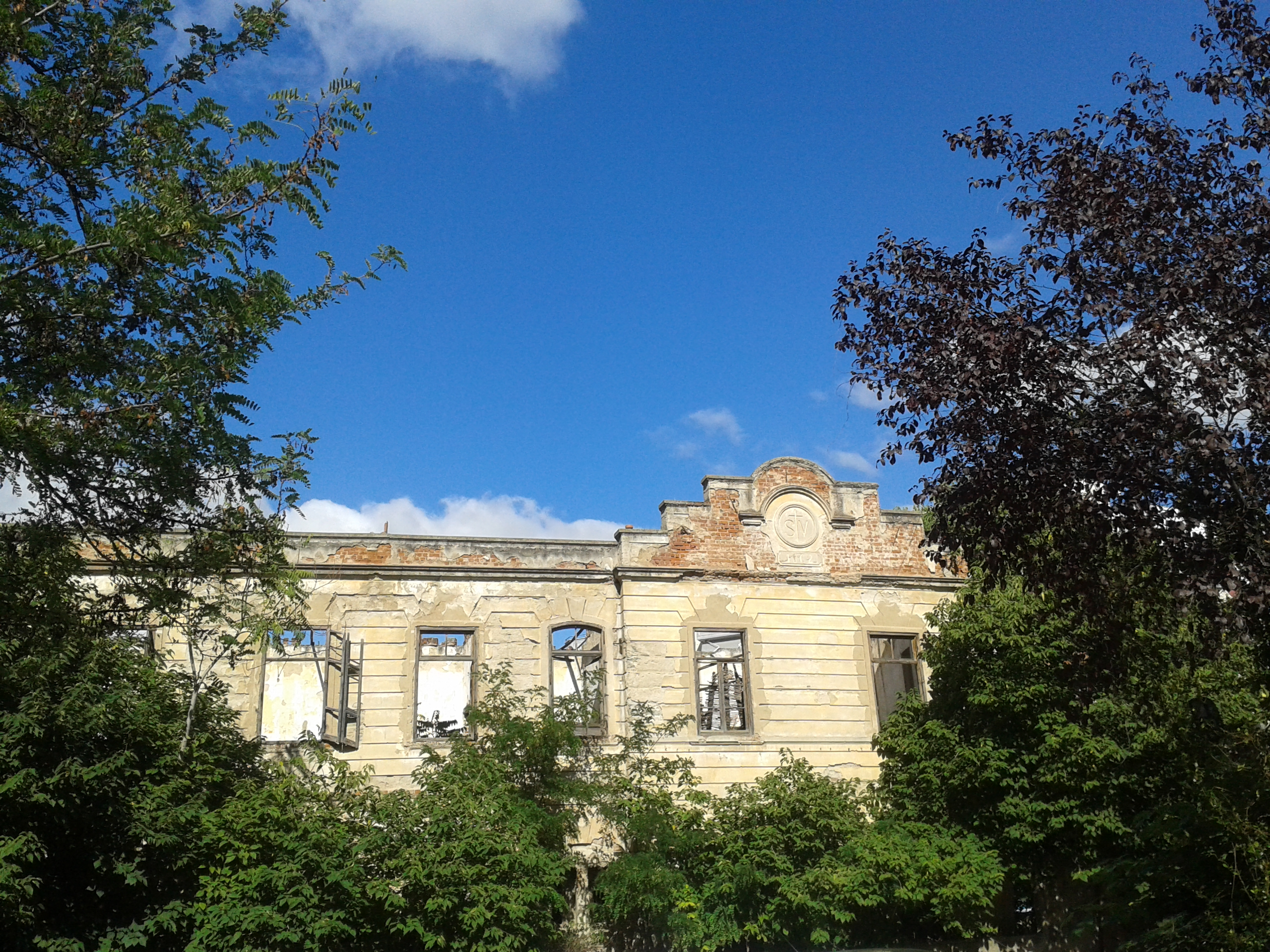 Lazarist Monastery in Thessaloniki, Daughters of Charity of Saint Vincent de Paul House